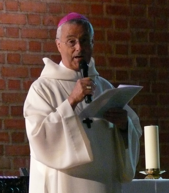 Bishop Aubertin during the World Youth Day 2011 (Madrid, Spain).